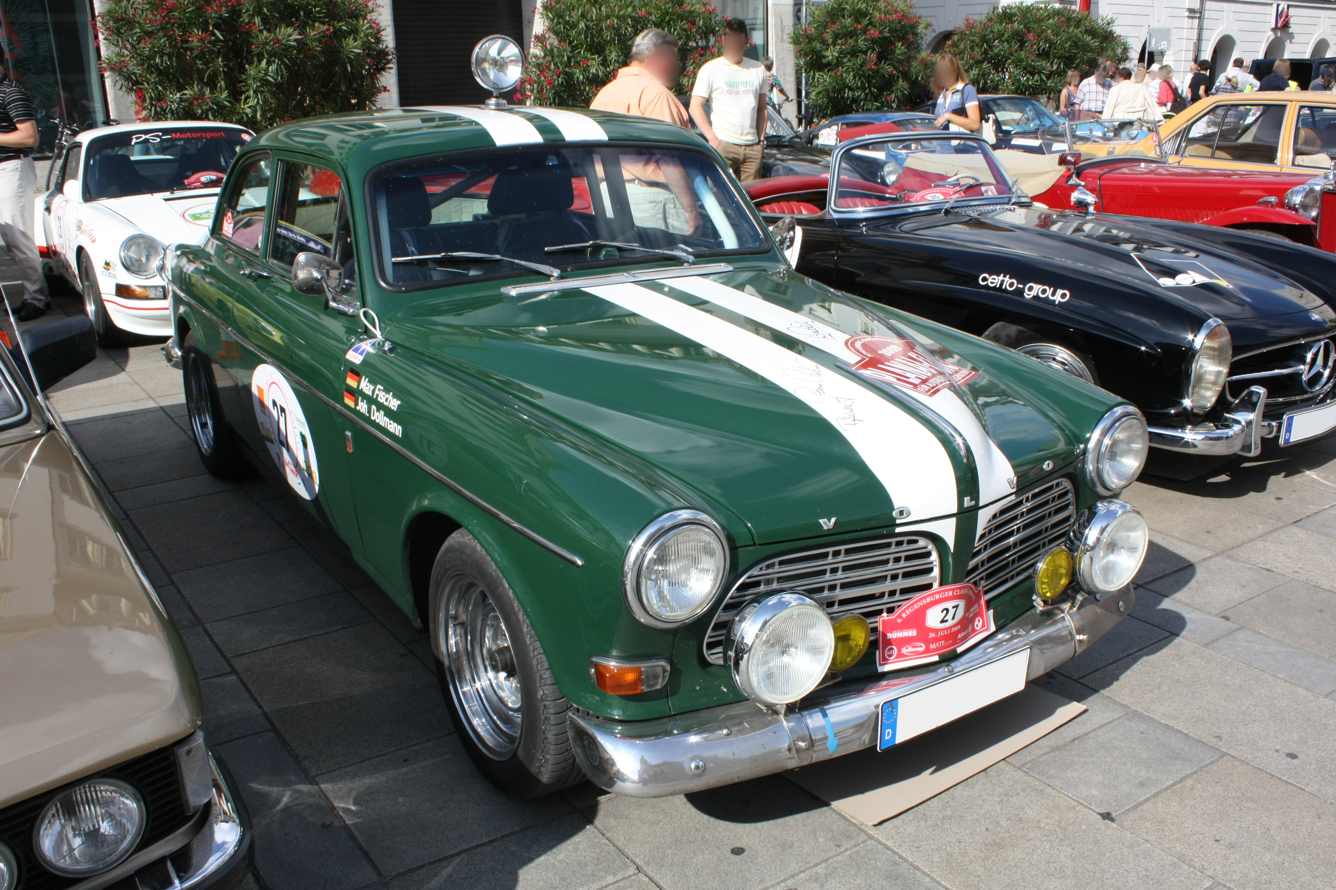 Volvo 123 GT